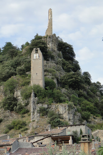 alte Turme